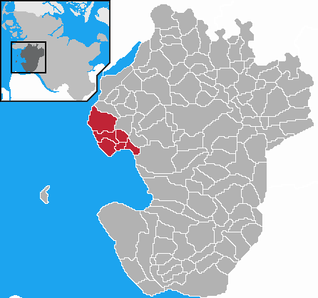 This map shows the area of the Amt Büsum in the district Dithmarschen, Schleswig-Holstein, Germany.